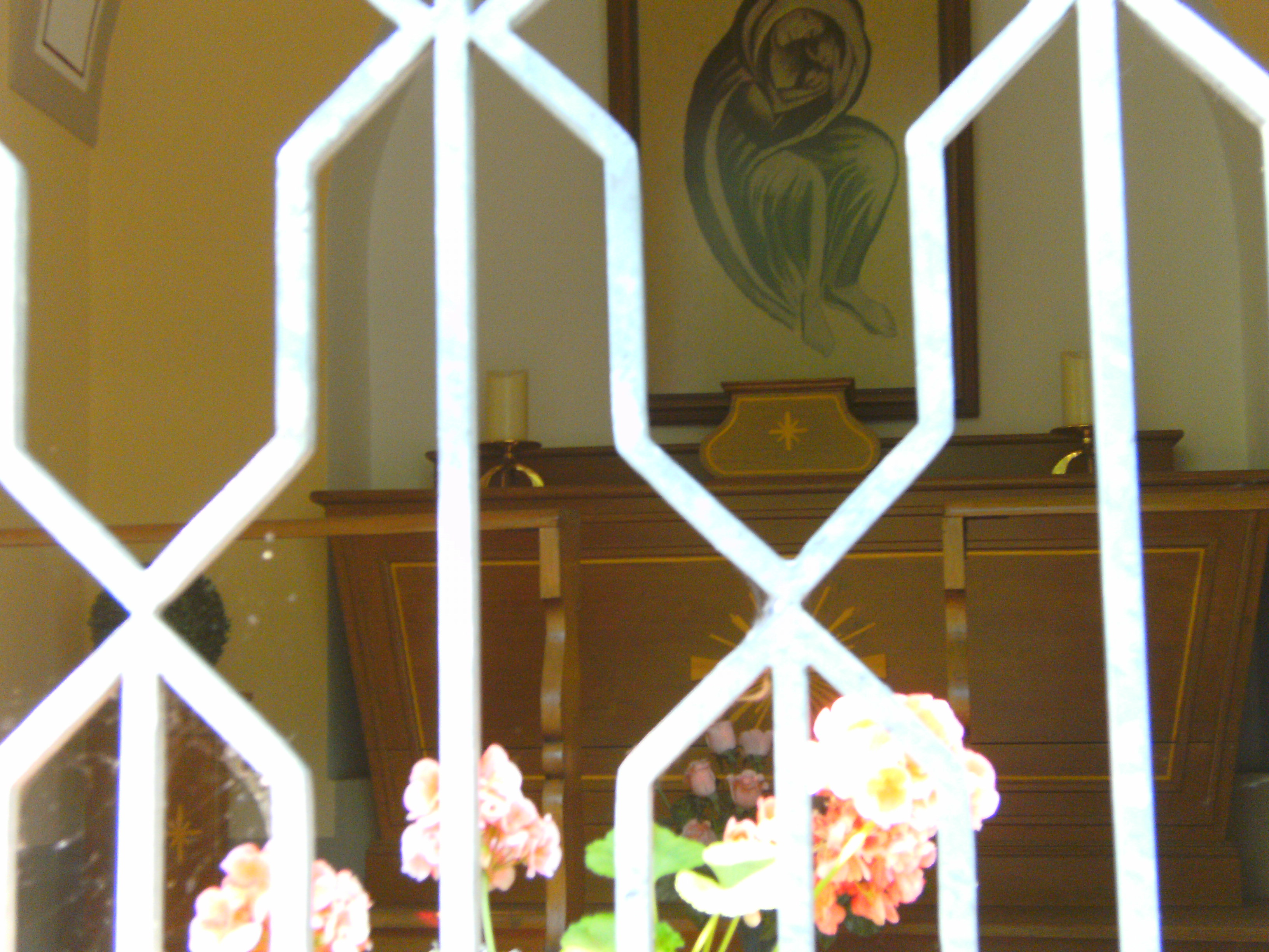 A copy of Stalingradmadonna in a little chapel in Meersburg, Am Rosenhag to remember that peace is the best solution.